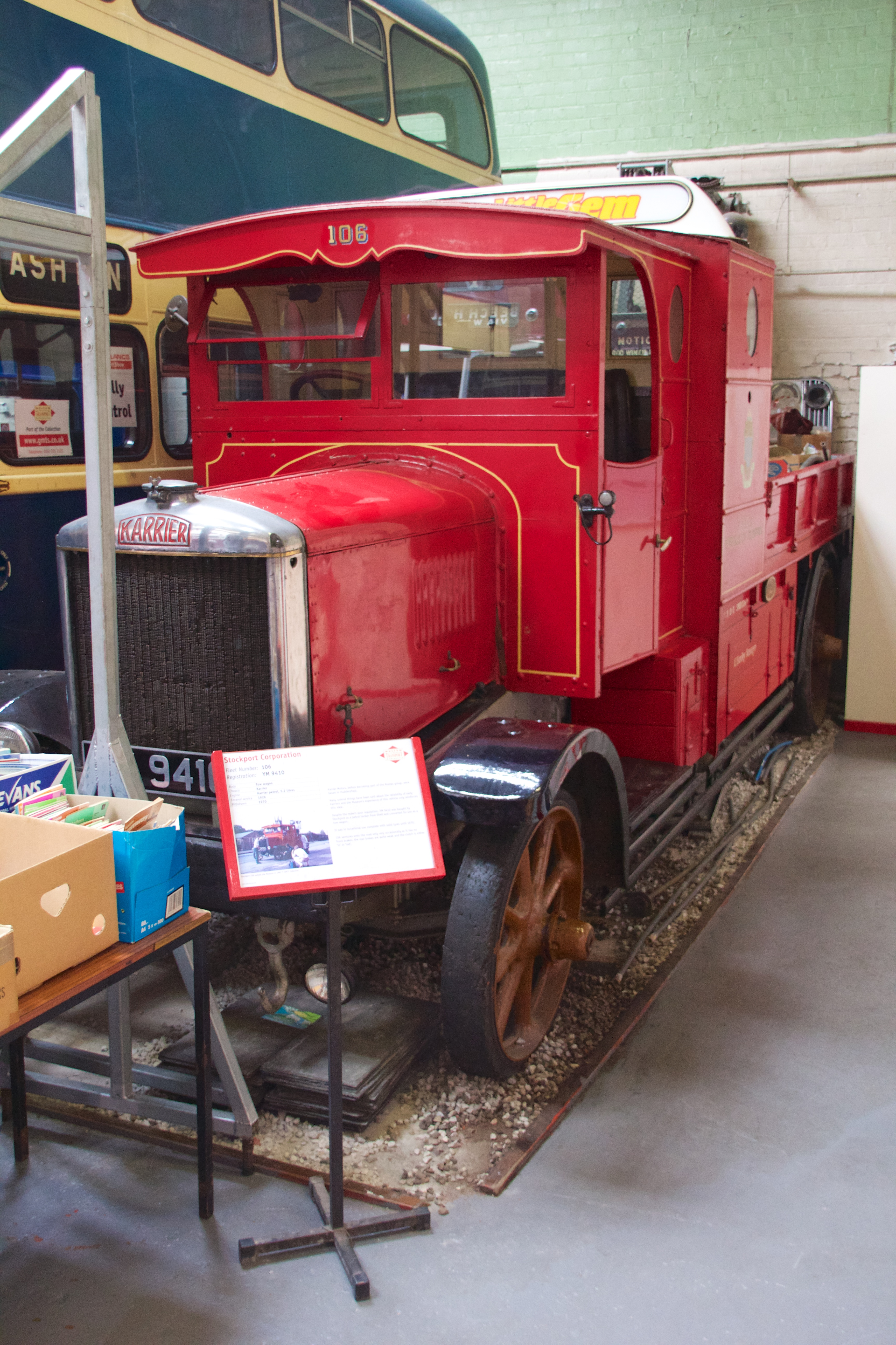 Stockport Corporation. Fleet number: 106. Registration: YM9410. Body: Tow wagon. Chassis: Karrier. Engine: Karrier petrol, 5.2 litres. Entered service: 1926. Withdrawn: 1970. At the Museum of Transport, Greater Manchester.